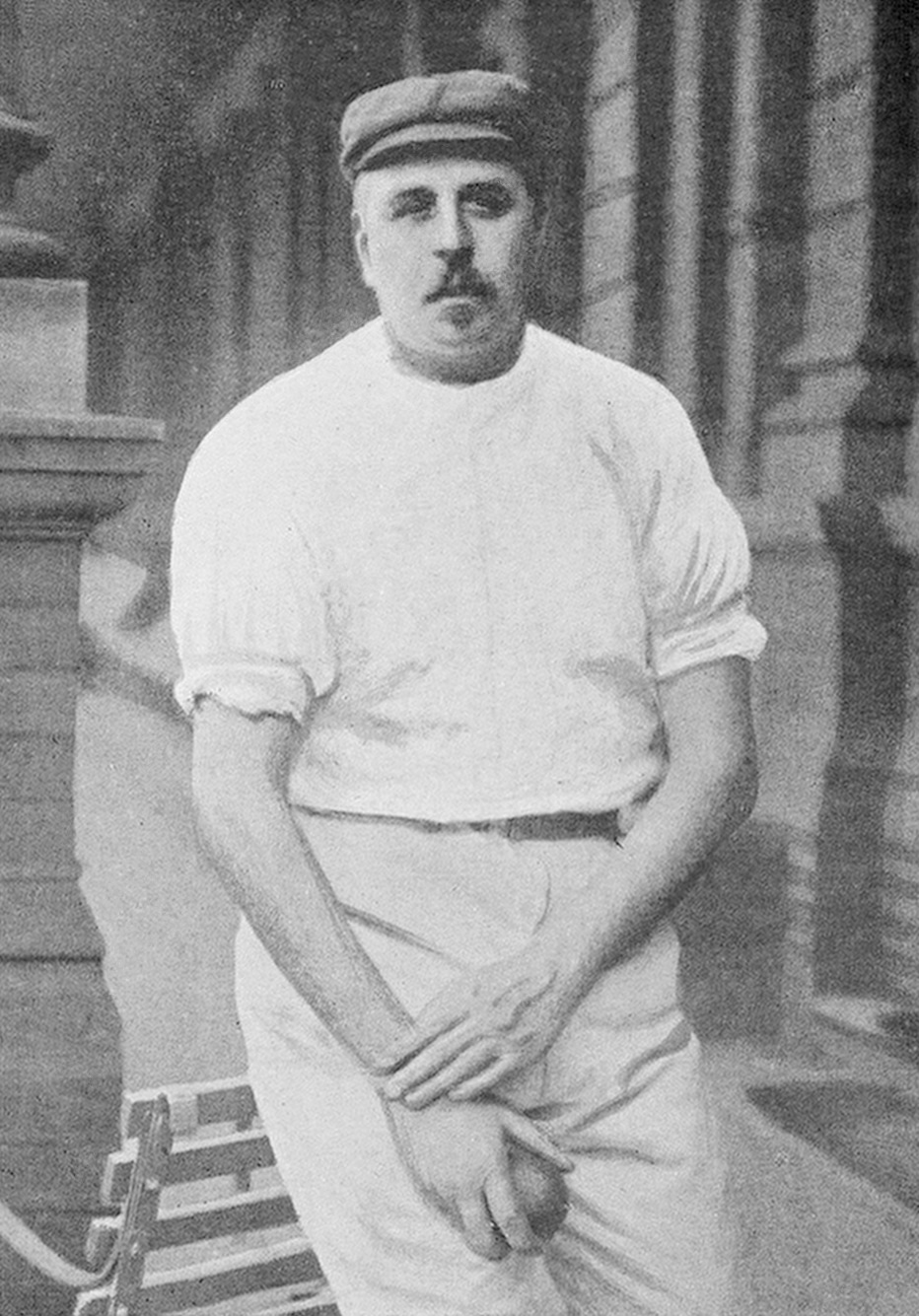 Scan of cricketer George Porter